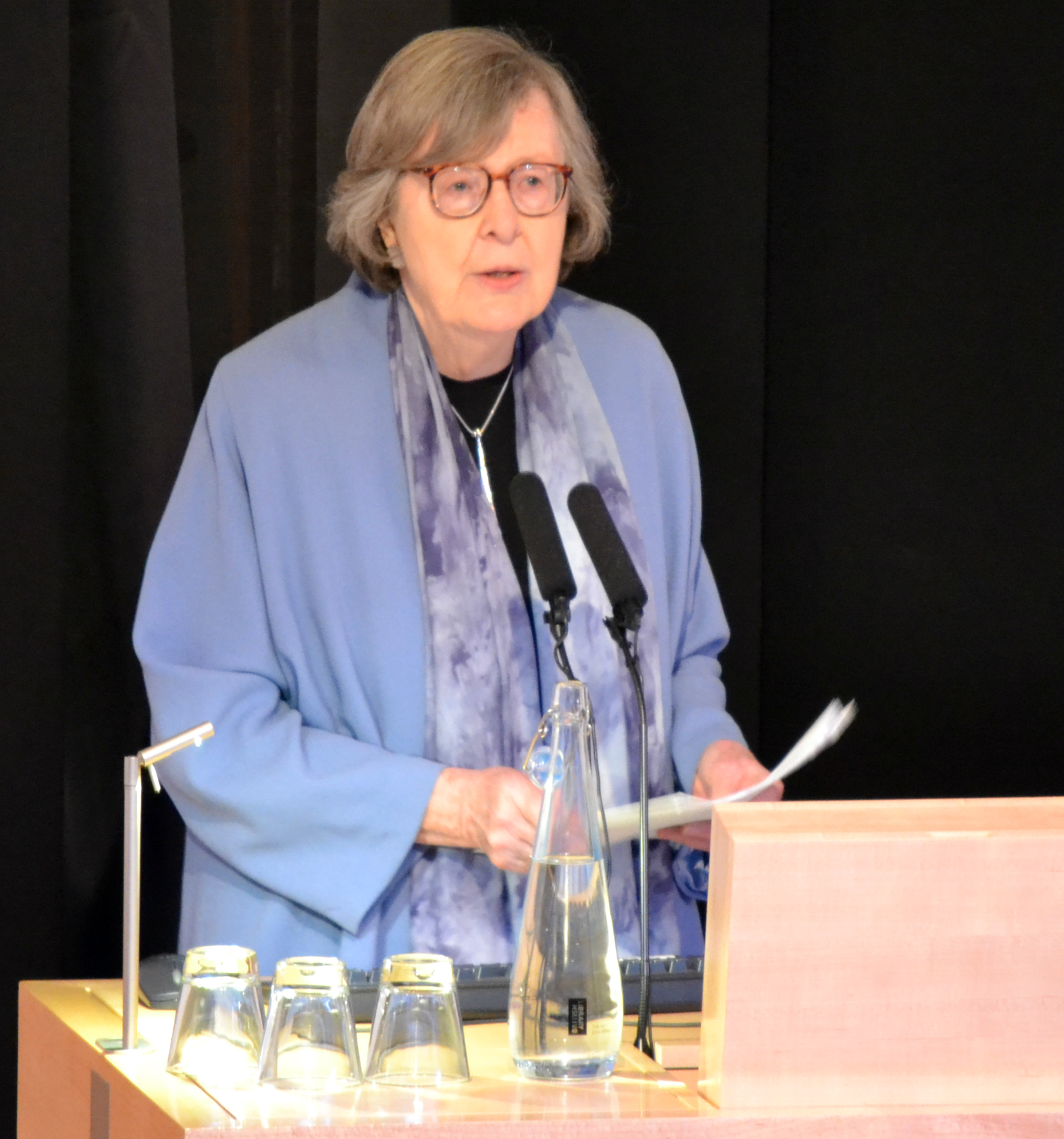 Penelope Lively, author of fiction for both children and adults. Winner of both the Booker Prize and Carnegie Medal